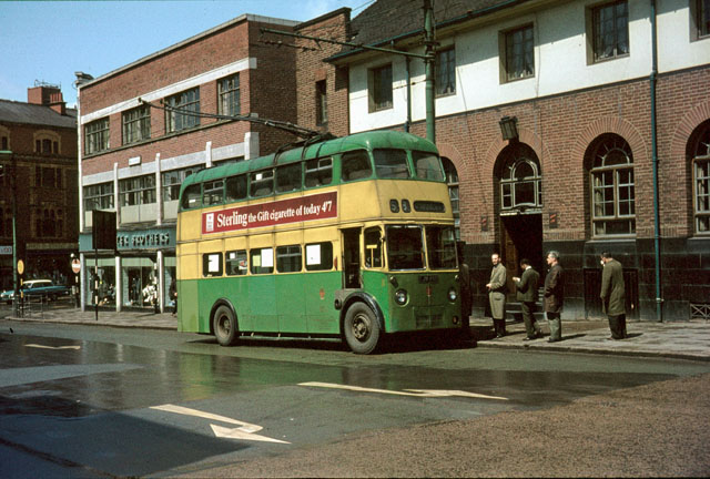 British Trolleybuses - Wolverhampton This is Bilston Street, the terminus of the last trolleybus route in the town, which ran out to Dudley. The street is now pedestrianised and some other interesting changes have taken place. The building on the right, formerly The Garrick P.H. and now a building society, has lost the two left hand bays to redevelopment. The other building behind the trolleybus has been replaced, although the design is remarkably similar to the lower two floors of the one in the picture.